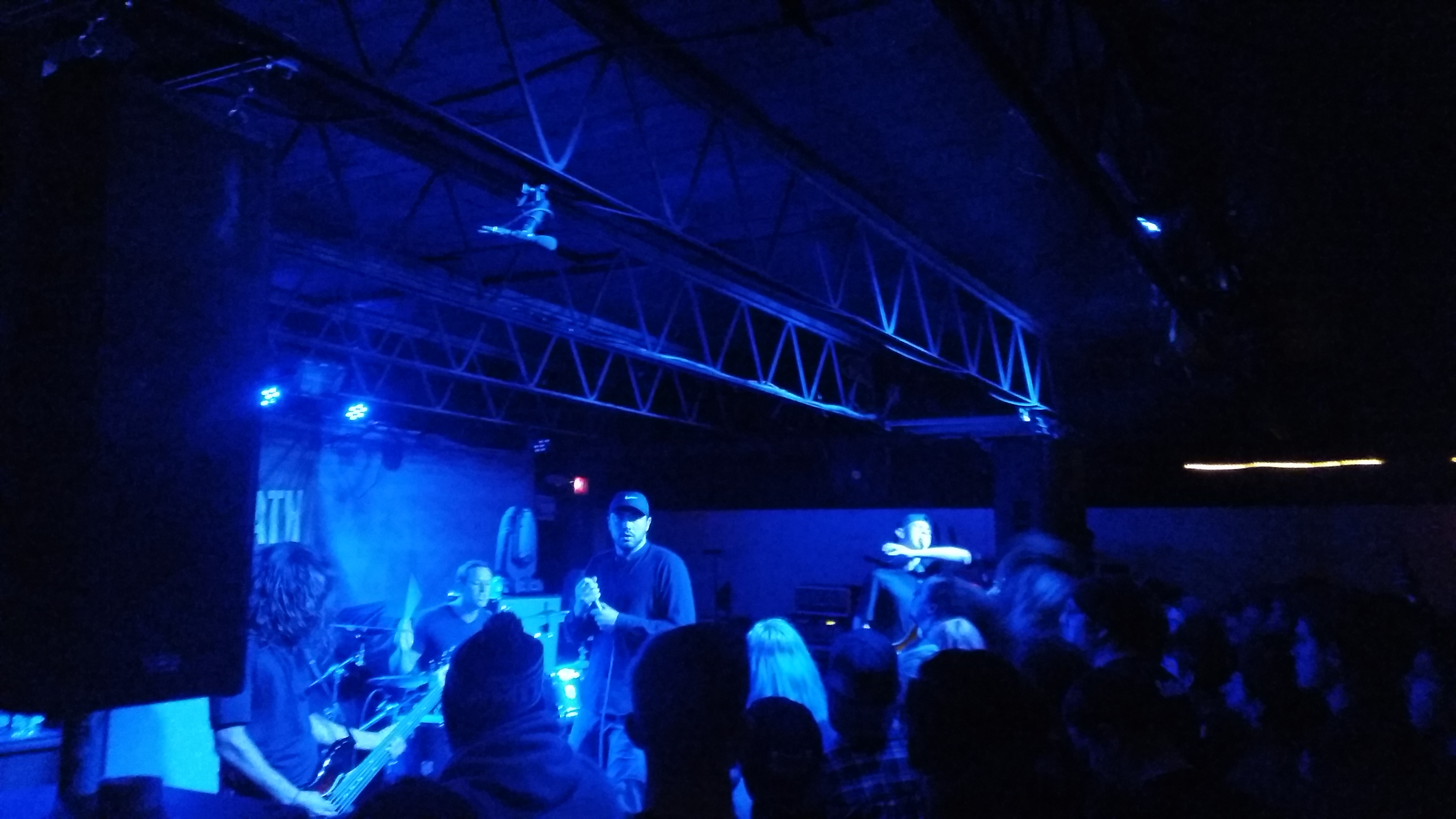 Stray from the Path, Make them Suffer 1